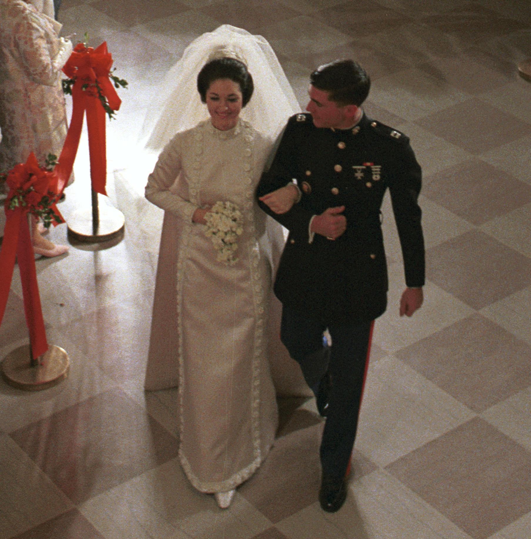 Wedding of Lynda Bird Johnson and Captain Charles Robb